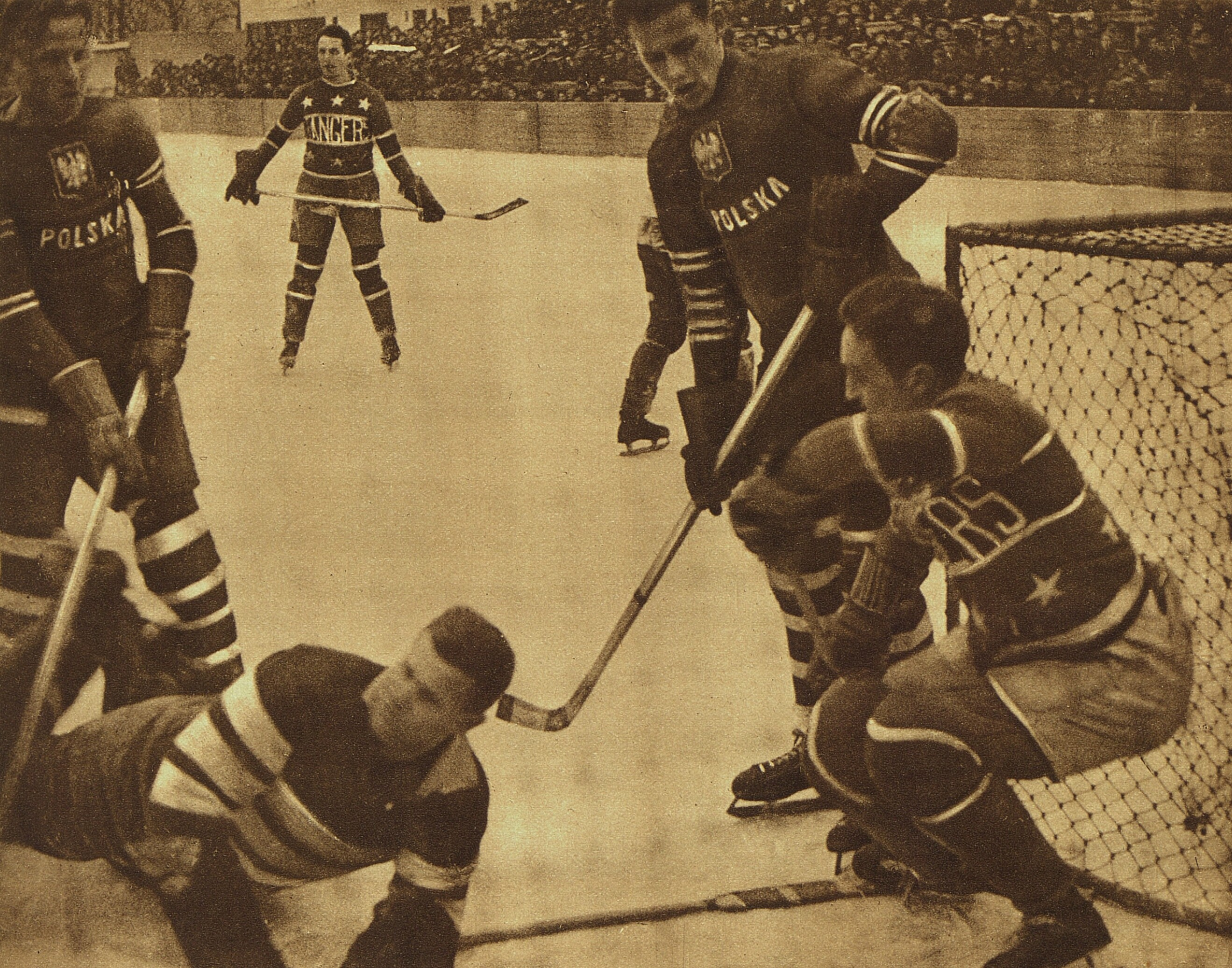 Ice hockey match USA-Poland at World Championship 1933 in Prague